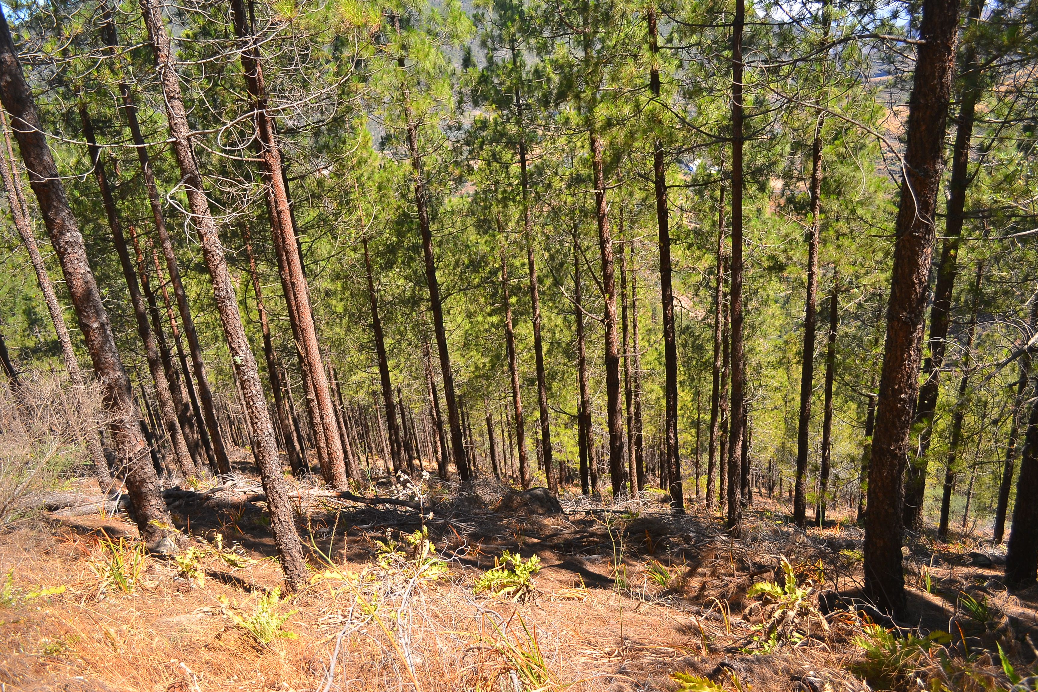 Landscapes of Natural Park of Tamadaba (Gran Canaria, Canary Islands).